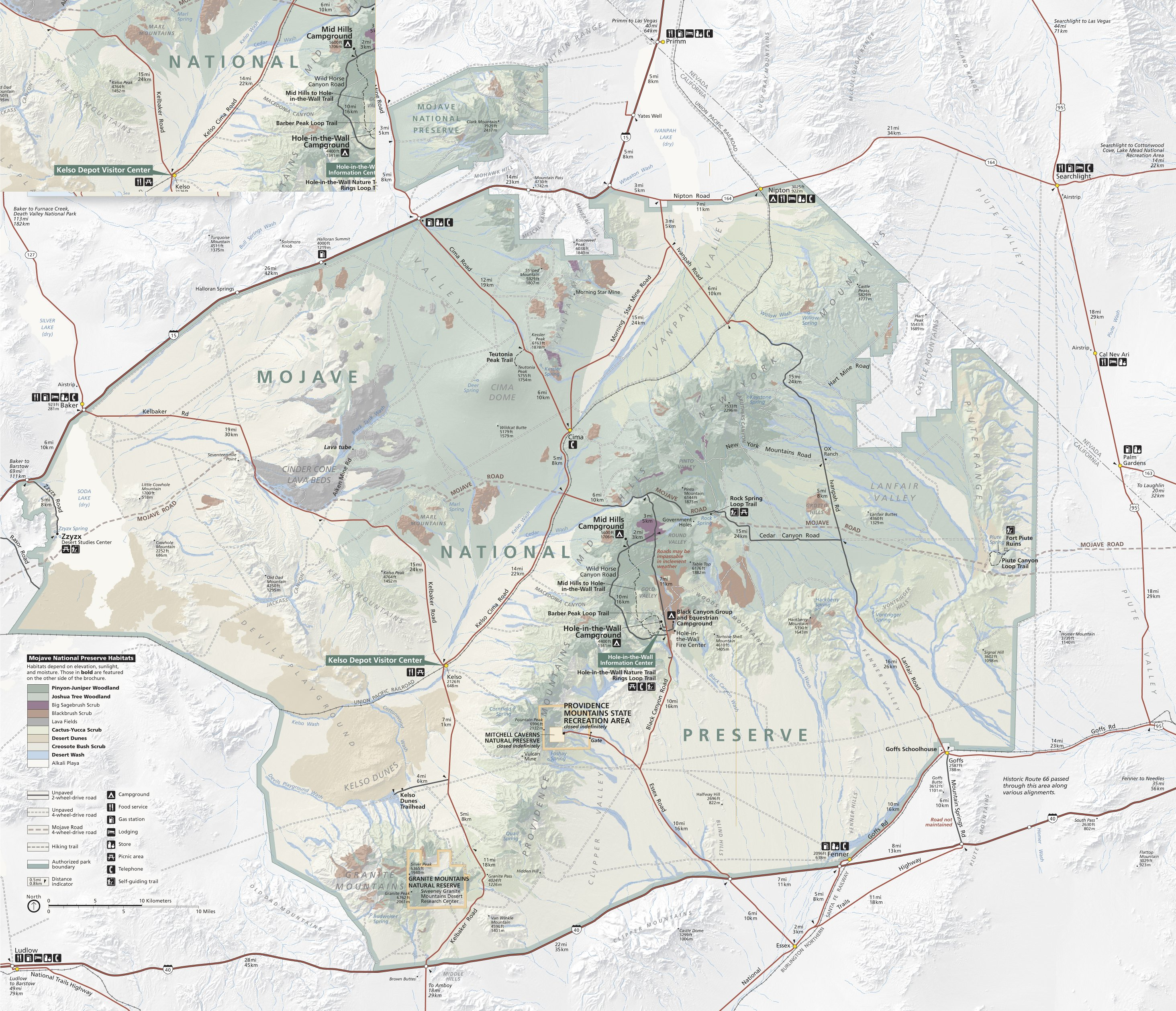 High resolution map of the Mojave National Preserve in Southern California, United States.